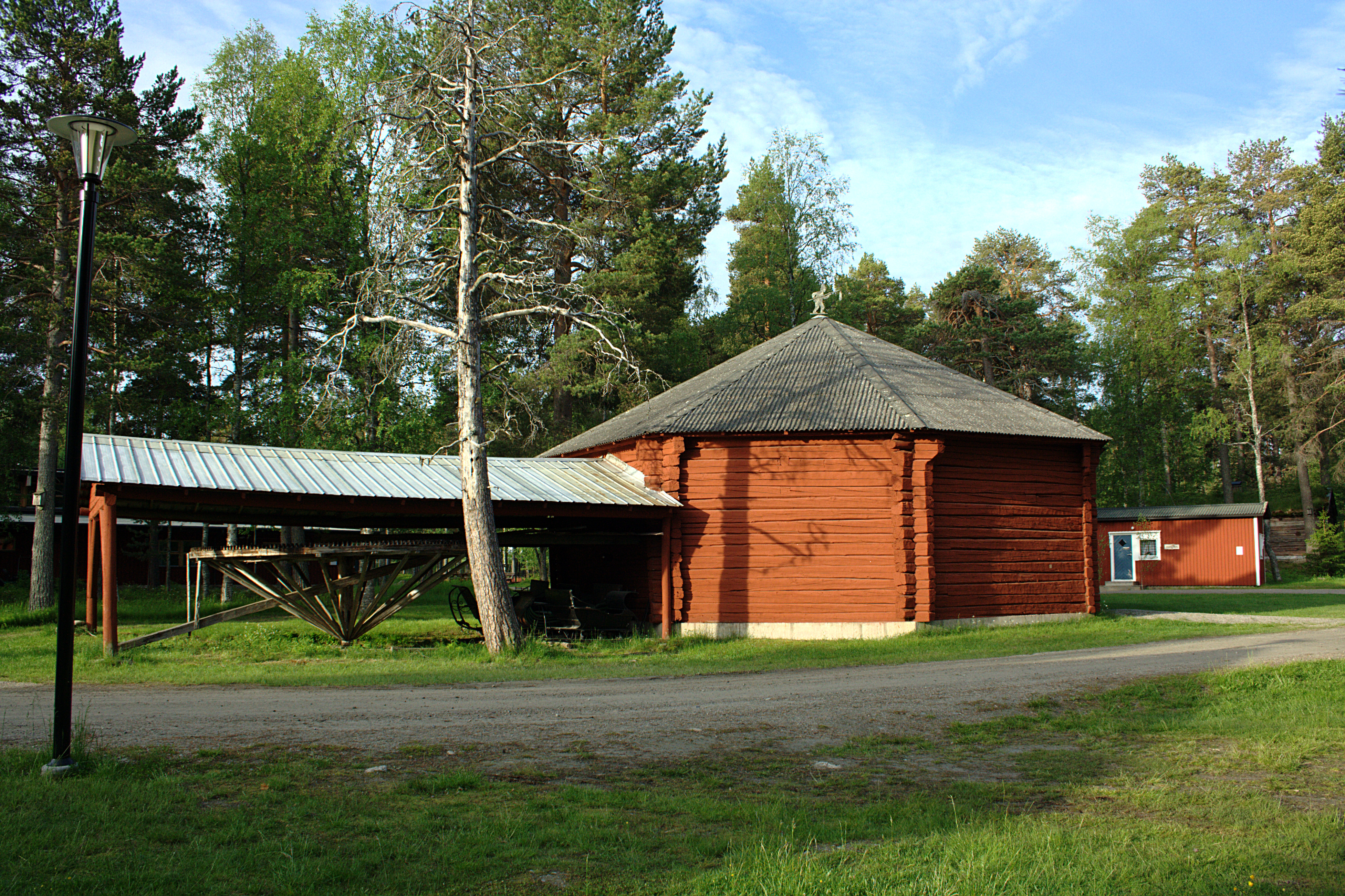 Round barn at Gammplatsen in Lycksele